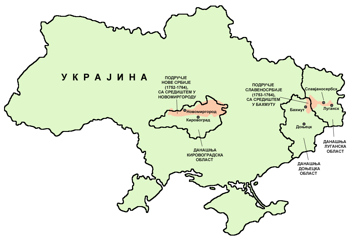 Map of the location of historical New Serbia (1752-1764) and Slavo-Serbia (1753-1764) and comparison with the location of modern provinces of Ukraine.